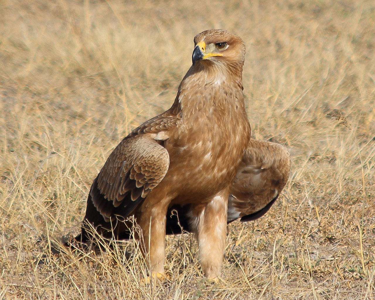 Tawny eagle, Serengeti (Tanzania)